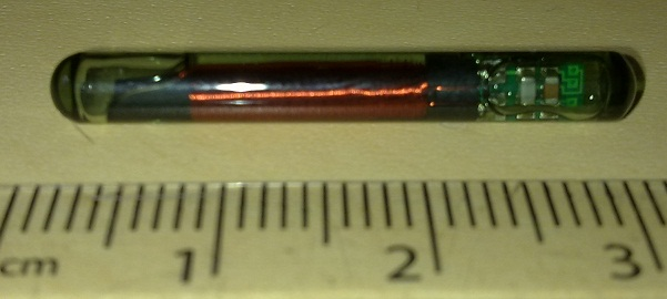 Capsule containing the transponder used in the ChampionChip timing system